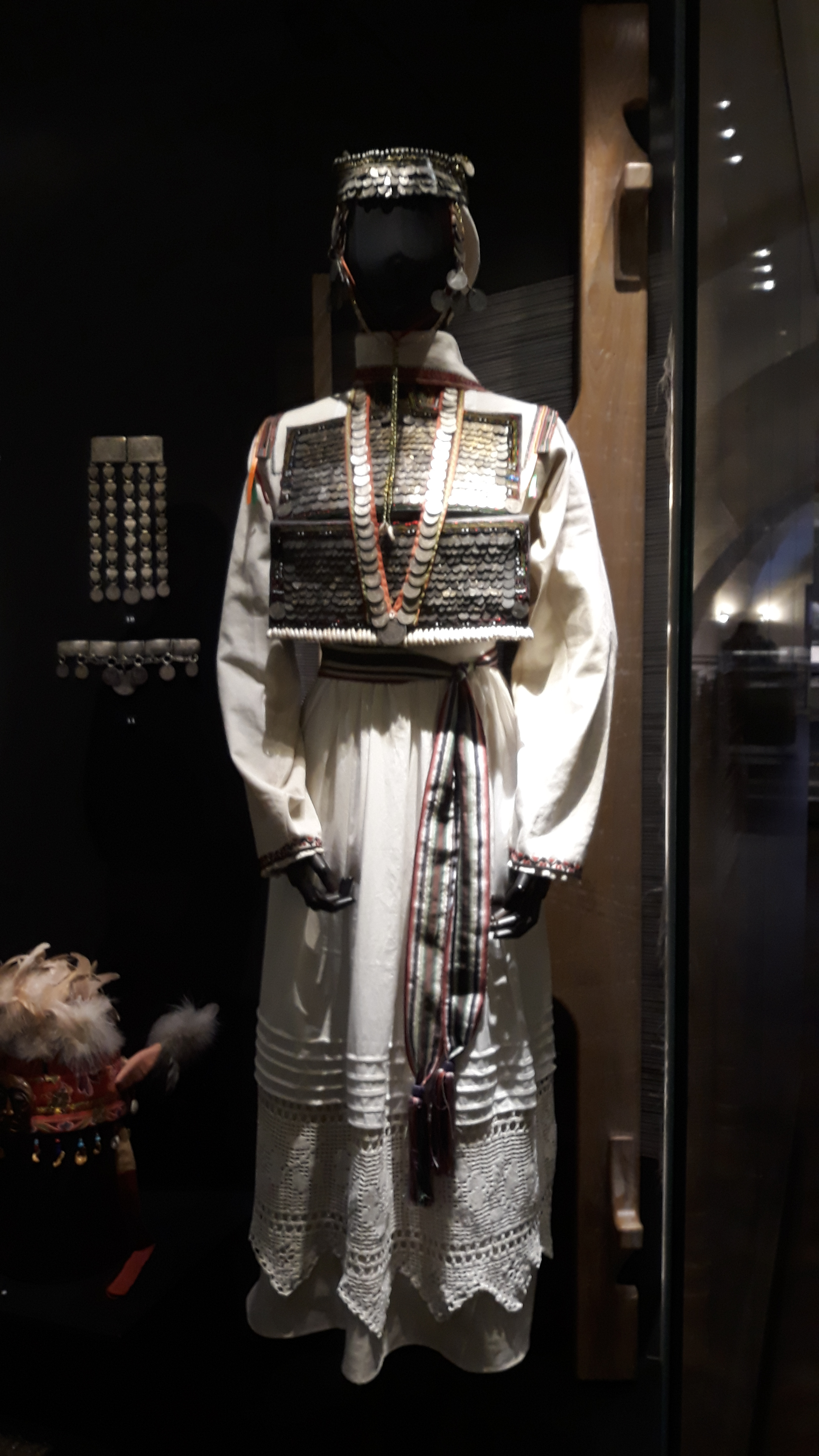 Costume of a Mari woman. XIX-beginning XX. Kazan province (present day Republic Of Mari El). The place of permanent location is The Russian ethnographic Museum. Exhibited in Saint Petersburg at the Goznak Museum, Mint in 2019 This photo has been taken in the country: Russia